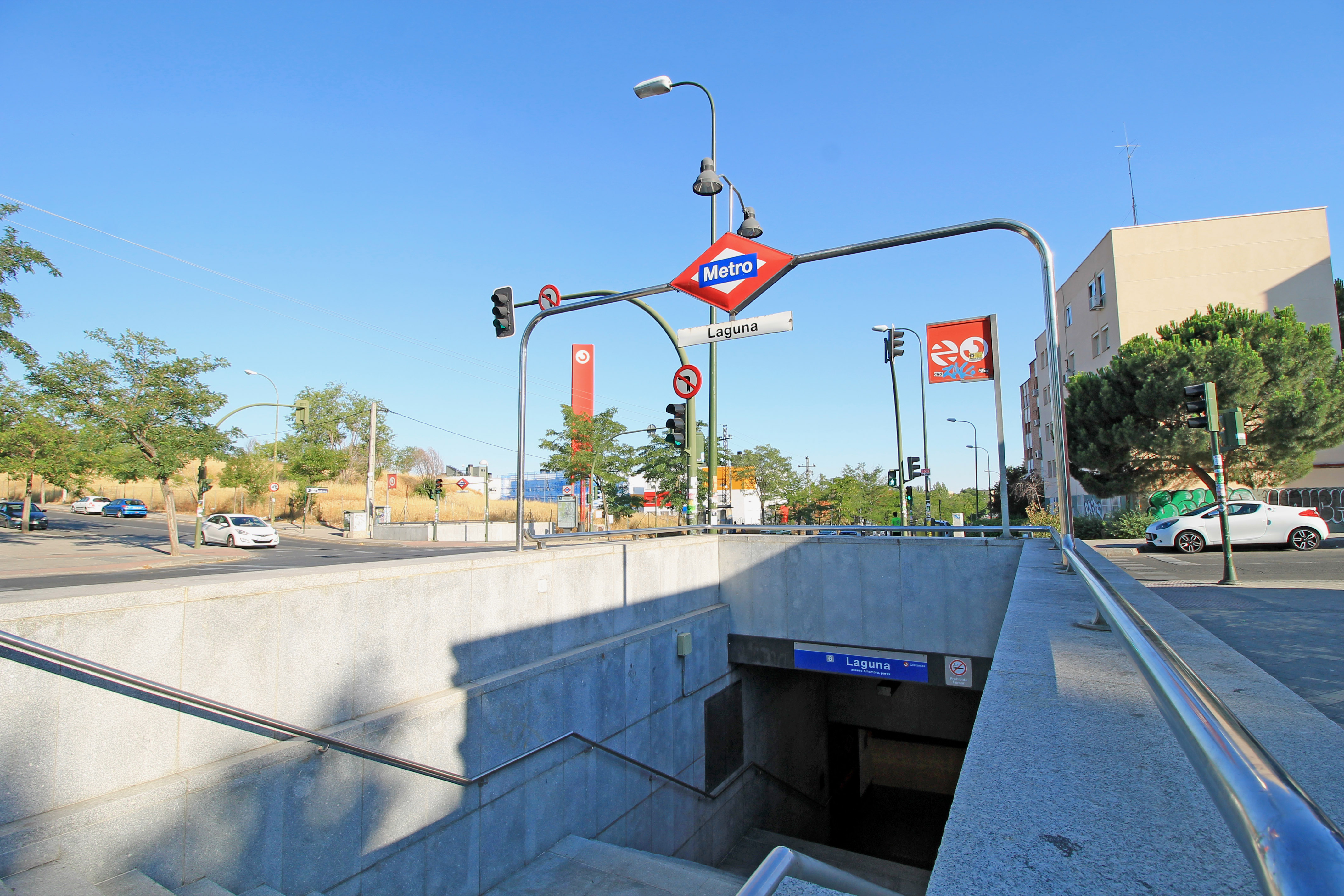 Entrance of Laguna metro station in Madrid (Spain).